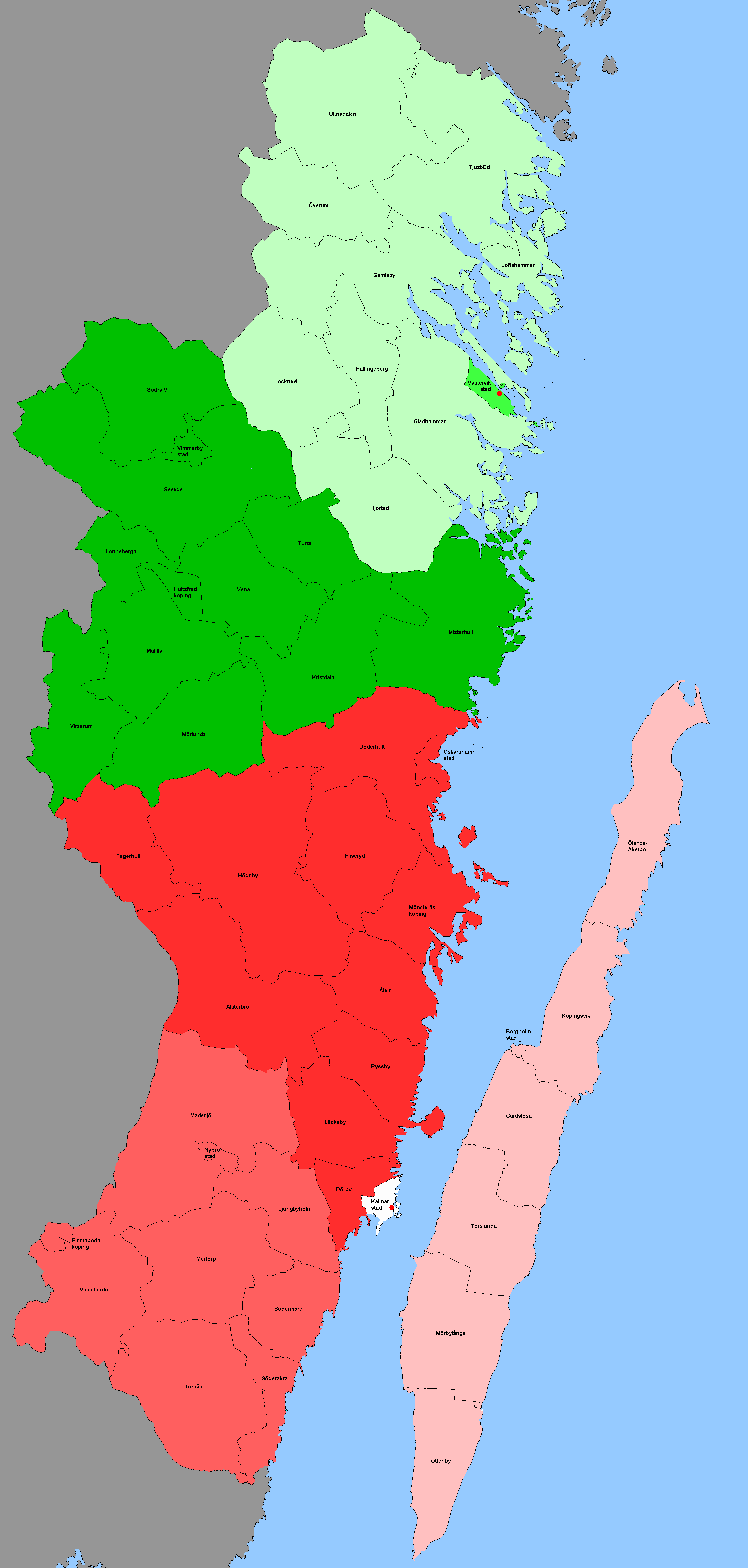 Old hospital care subdivisions in Sweden.